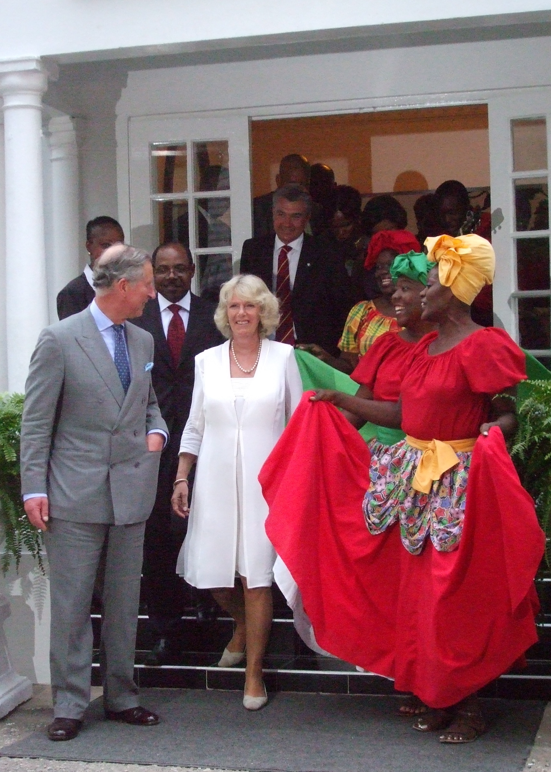 Photograph of Prince Charles and Camilla Parker Bowles. They were on an official visit to Jamaica and attended a reception at the Half Moon Hotel.